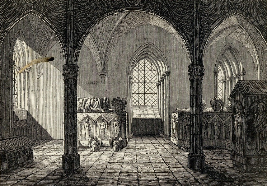 Tombs of King Peter I of Portugal and Posthumous-queen Inês de Castro, 1862.